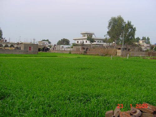 A view of village of Jagian Kotla.